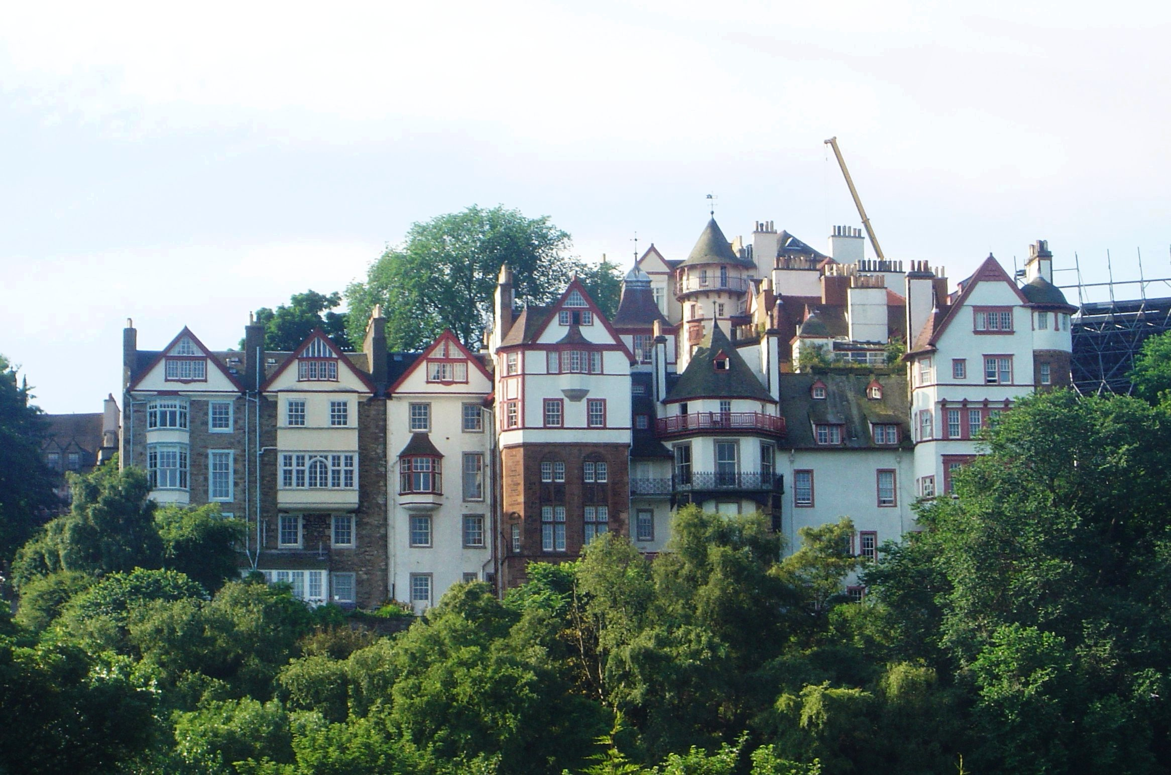 Ramsay Garden in the Old Town of Edinburgh from Princes' Street